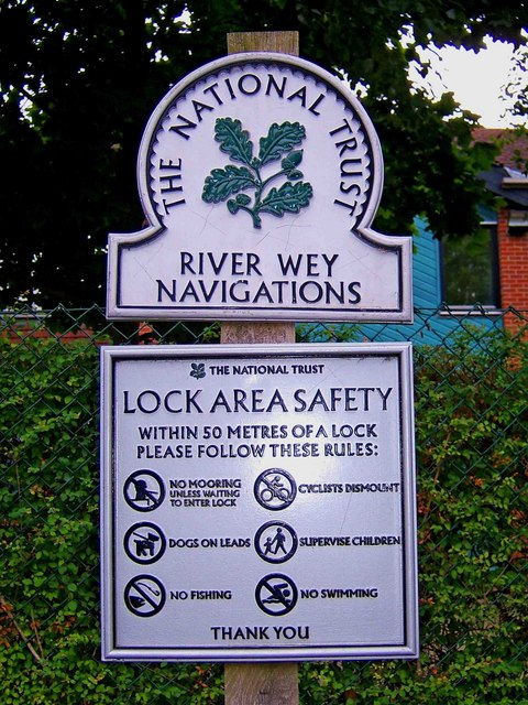 Lock area safety notice at Unstead Lock, Goldaming Navigation. The lock's owners, the National Trust, have placed this notice at the side of the footpath, opposite the lock. The River Wey Navigations refer to the Wey Navigation and the Godalming Navigation. There is a lot of confusion between the two, but Unstead Lock is on the Godalming Navigation, which continues to Guildford, where it becomes the Wey Navigation. This section does not even use the River Wey, because it was too winding, so a new channel was cut. 1419613